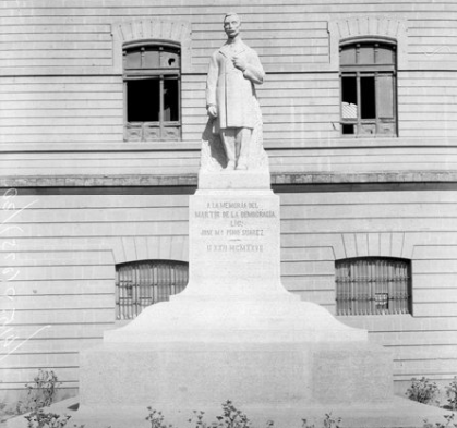 This Statue was erected in 1927 in the sight where José María Pino Suárez was assassinated during the events of the Ten Tragic Days. On the plaque of the statue, Pino Suárez is praised as the Martyr of Democracy. (A LA MEMORIA DEL MARTIR DE LA DEMOCRACIA C. LIC. JOSE MA. PINO SUAREZ II XII MXCXXVII)